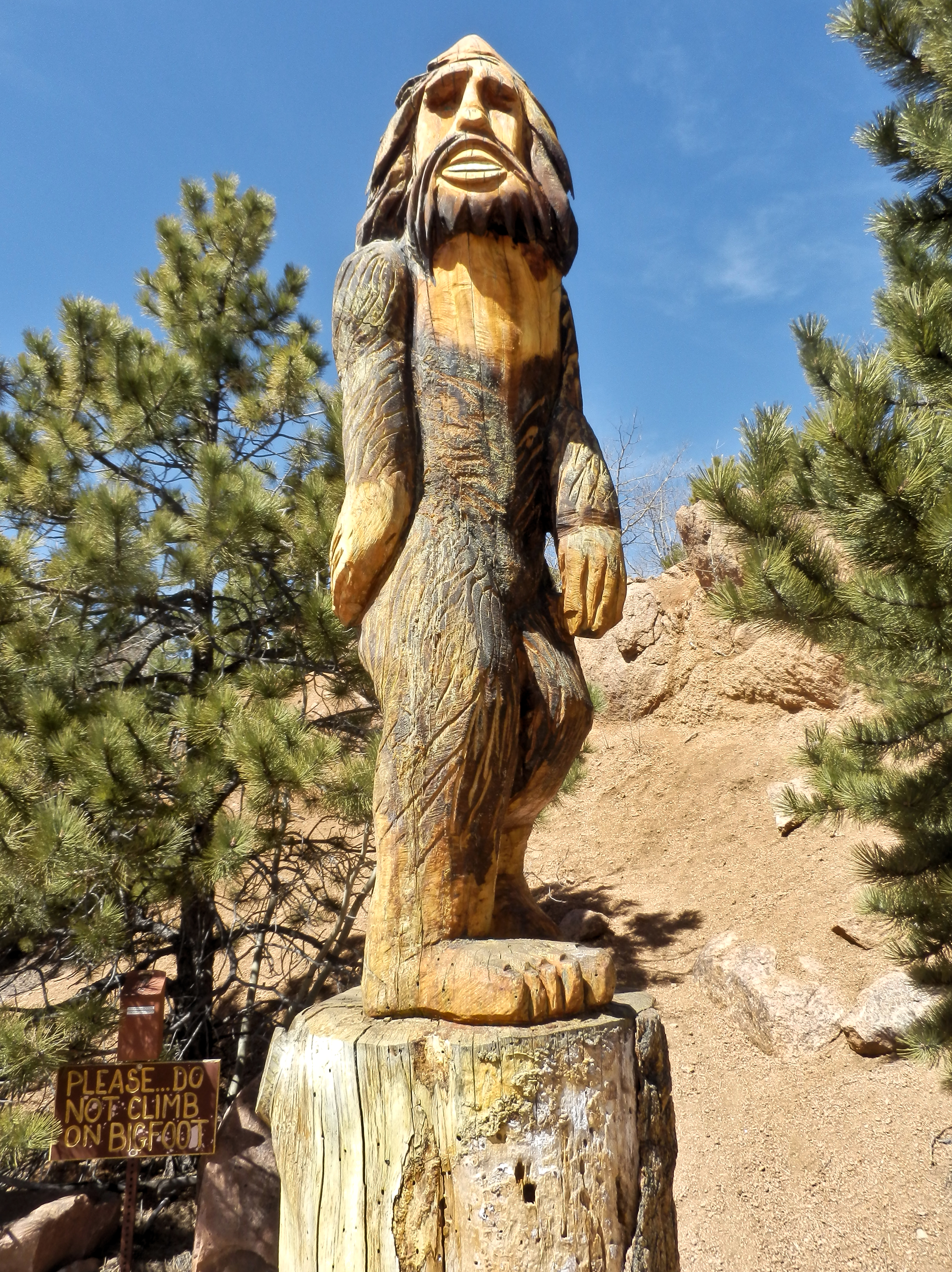 Bigfoot Statue